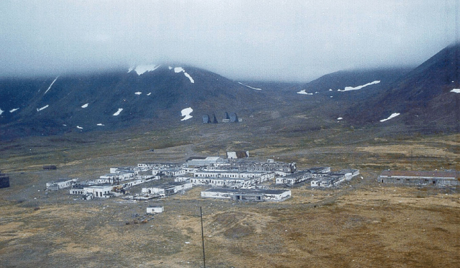 The former White Alice Communications System site at St. Lawrence Island, Alaska, USA.